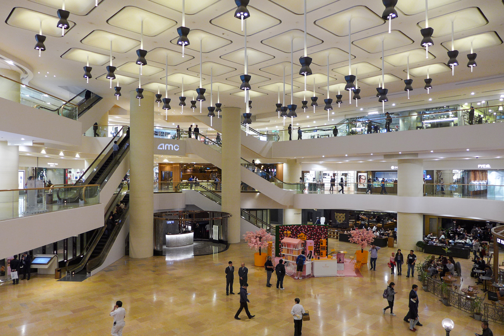 Pacific Place Phase 1 Void